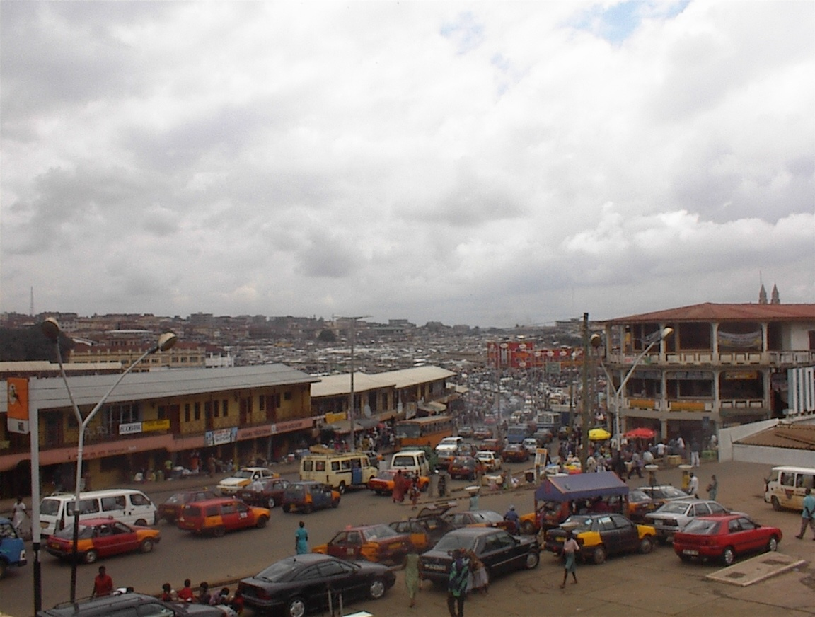 Kumasi, Ghana. Overlooking the market and central area of the city.